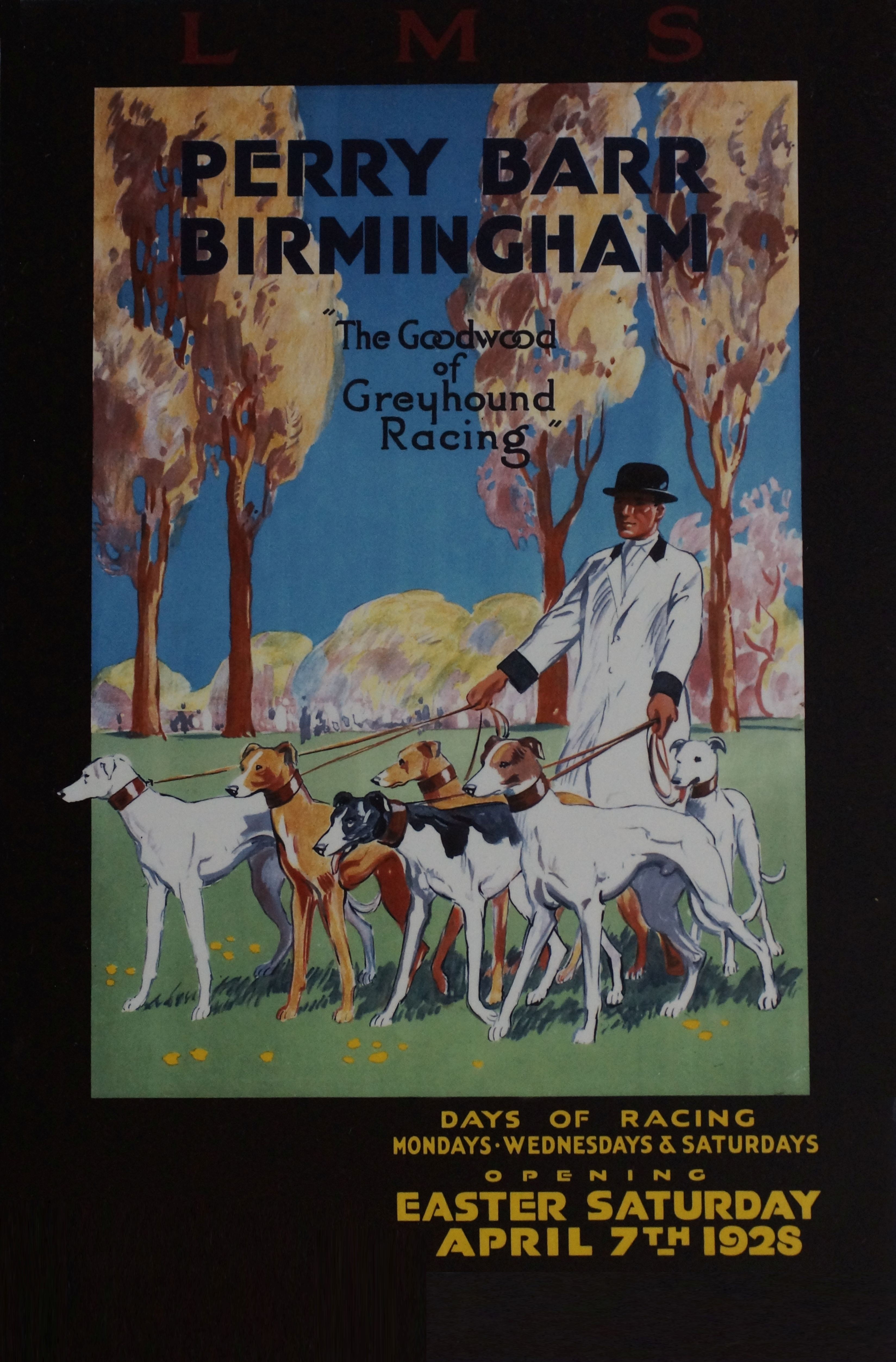 Images from ThinkTank by Sasha Taylor